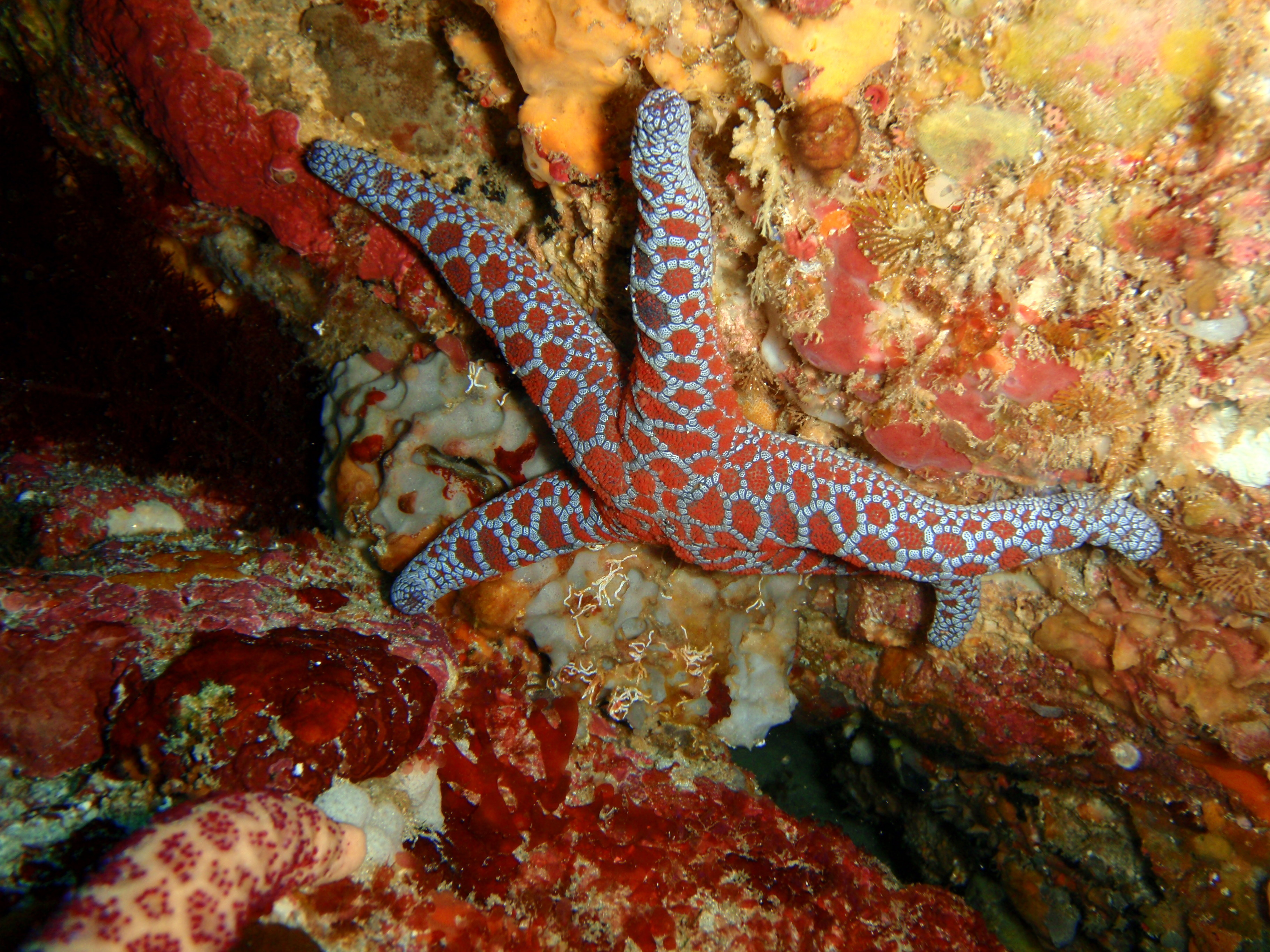 Mosaic seastar Plectaster decanus at Michaelmas Reef in King George Sound, South Australia.